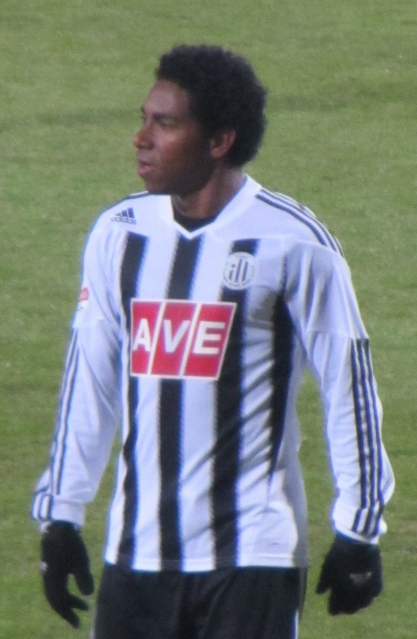 Sandro (Sandro Jose Ferreira da Silva) of SK Dynamo České Budějovice during a match against FK Dukla Praha